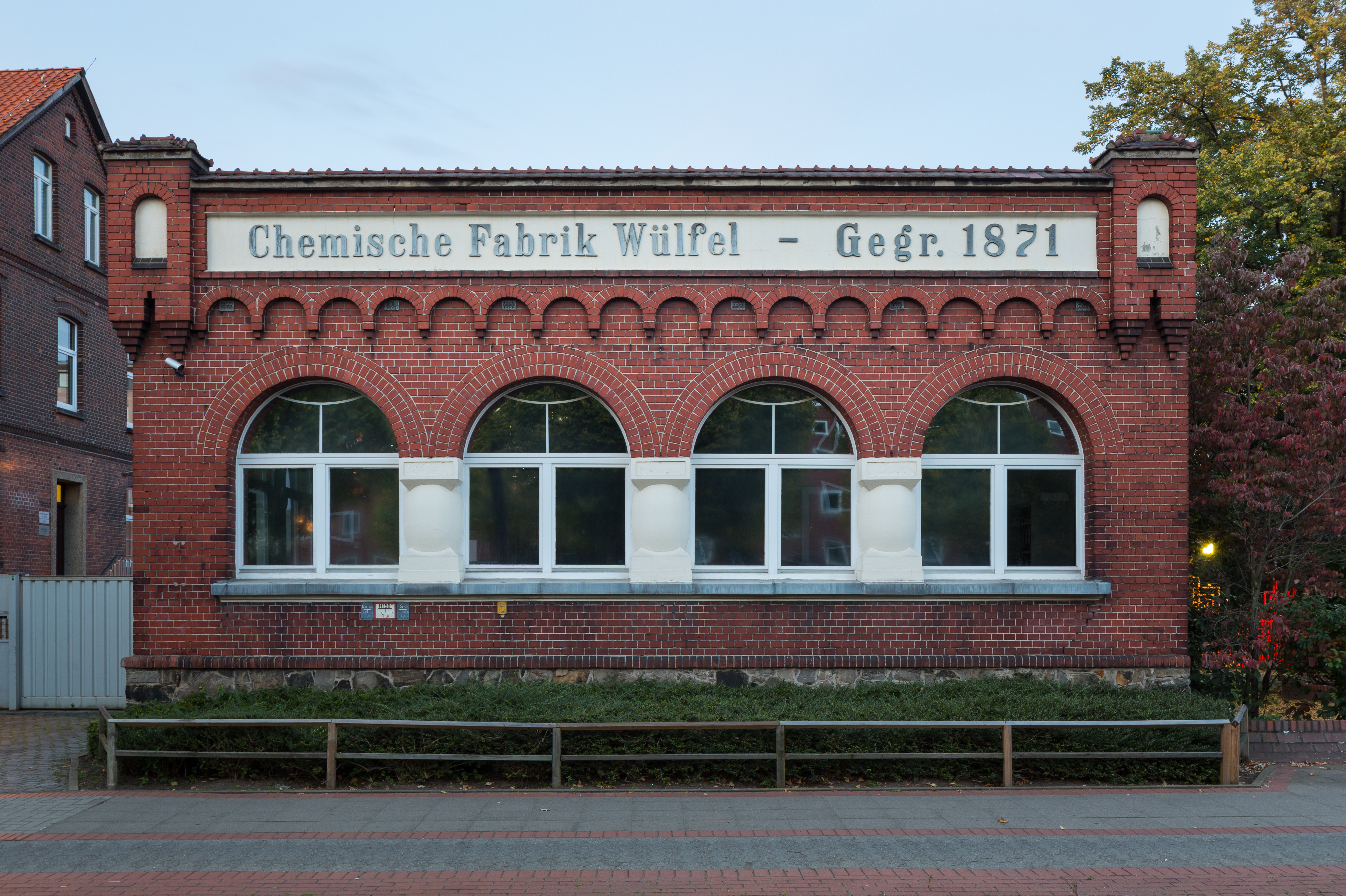 Factory building located at Hildesheimer Strasse close to An der Wollebahn in Doehren quarter of Hannover, Germany.